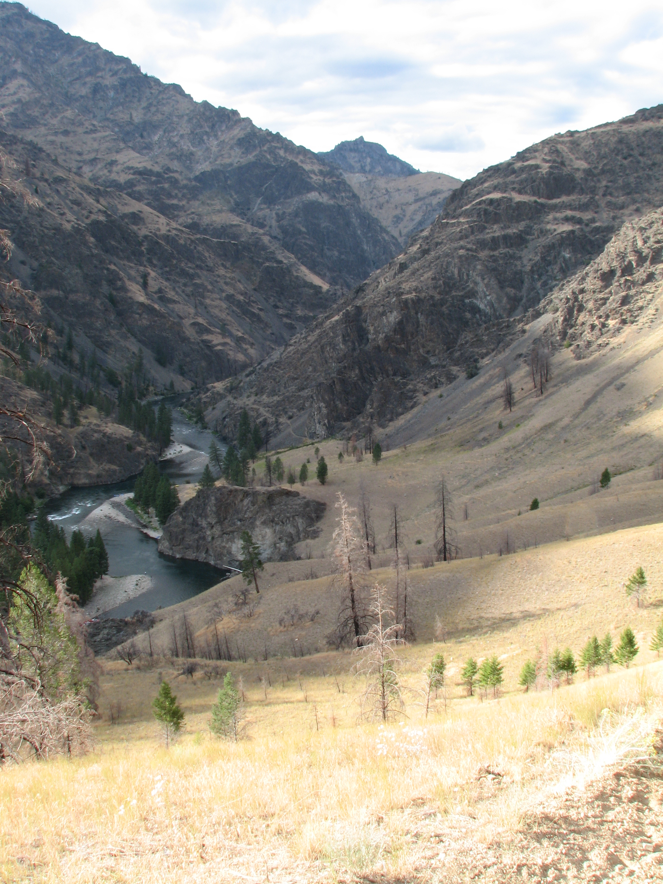 Another canyon view in the Frank Church-River of No Return Wilderness